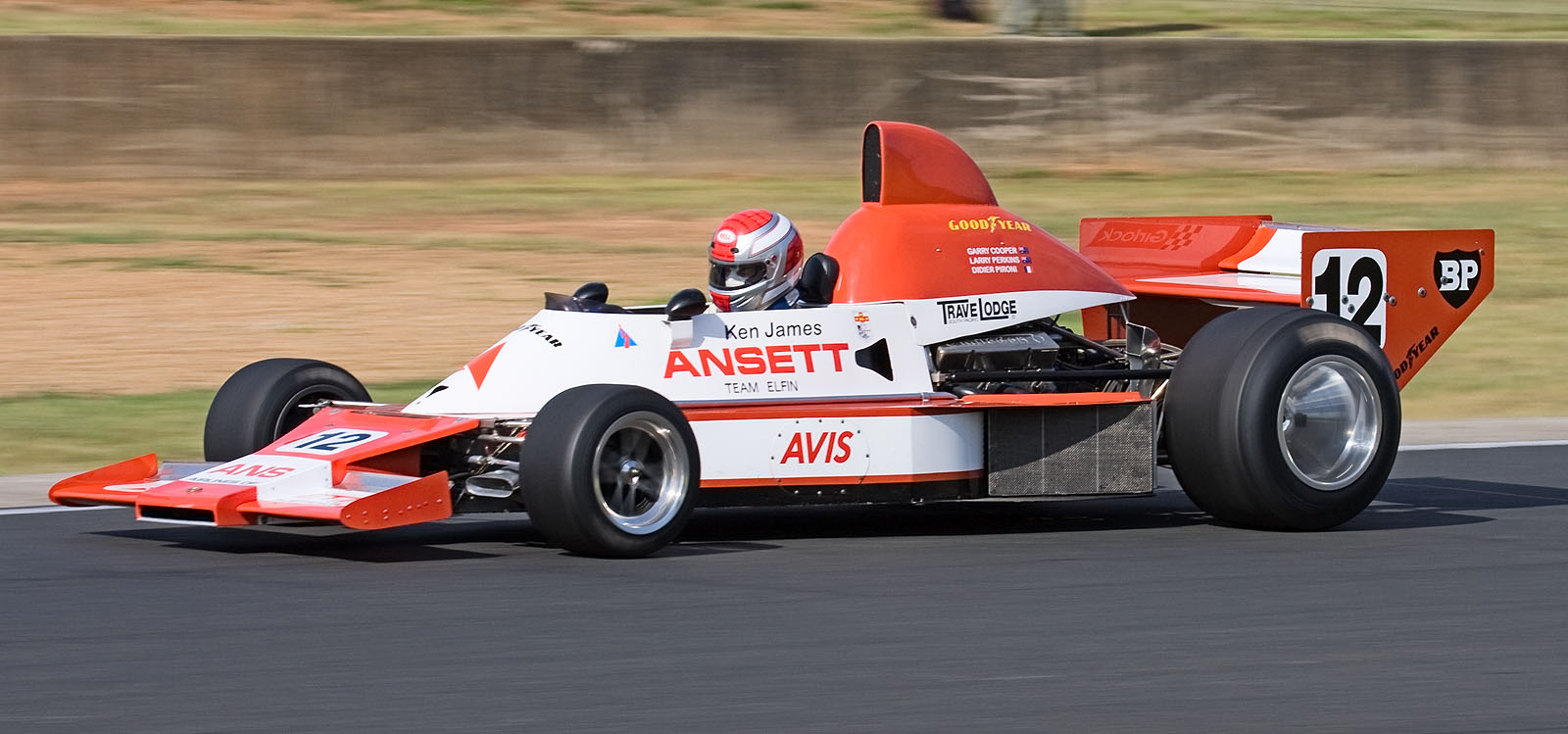 An Elfin MR8C at Eastern Creek.